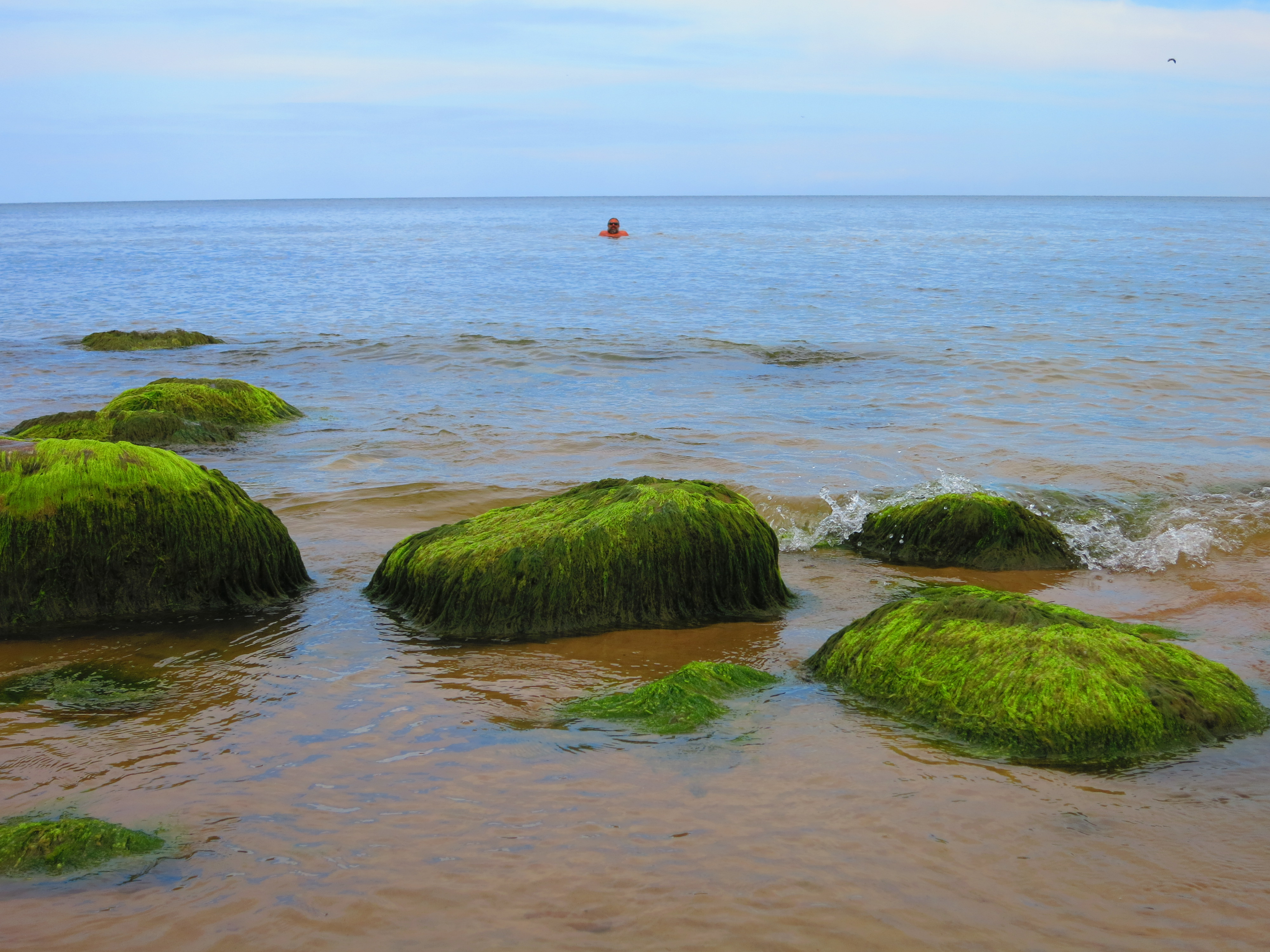 Gulf of Finland in Toila (Estonia)